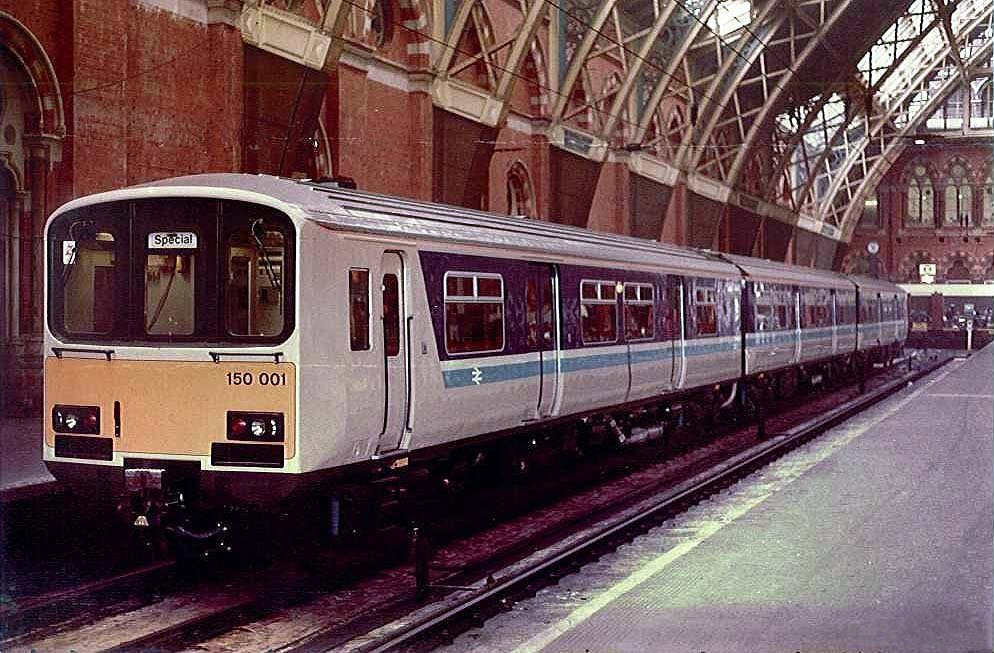 150001 at St Pancras after a publicity run from Derby. This unit is now operated by First Great Western on services between Reading and Basingstoke.